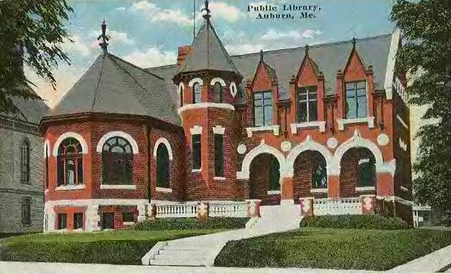 Public Library, Auburn, ME; from a c. 1910 postcard. Designed by noted Maine architect William R. Miller, the library was built in 1903-1904. Miller also designed the Great Northern Hotel in Millinocket, Maine.